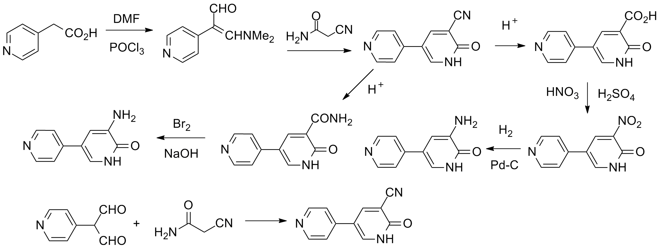 G. Y. Lesher, Ch. J. Chester, U.S. Pat. 4.004.012 (1977). Ch. G. Opalka, G. Y. Lesher, U.S. Pat. 4.072.746 (1978). K. O. Gelotte, E. D. Parady, Br. Pat. 2.070.008 (1981).